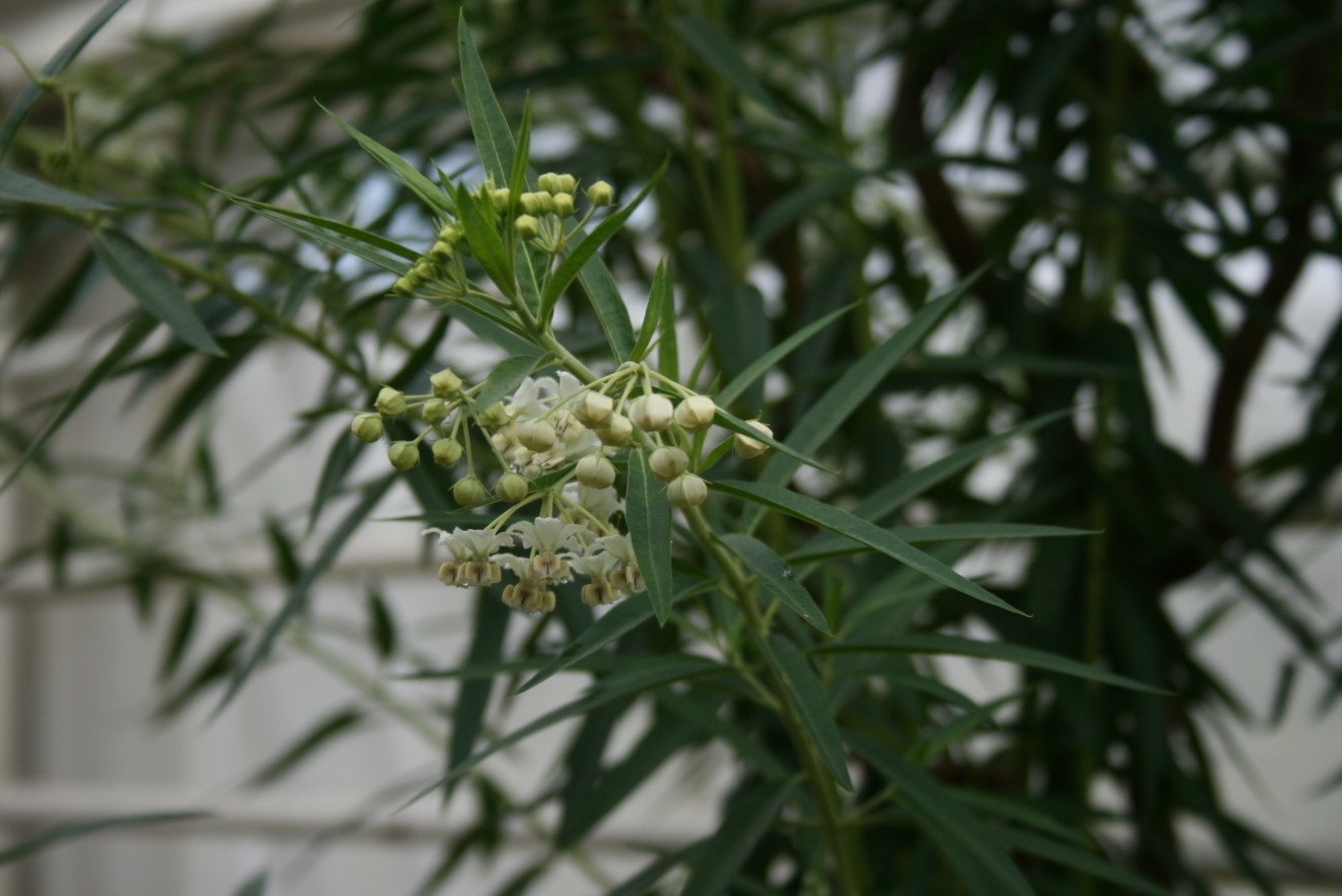 Gomphocarpus fruticosus: Foliage